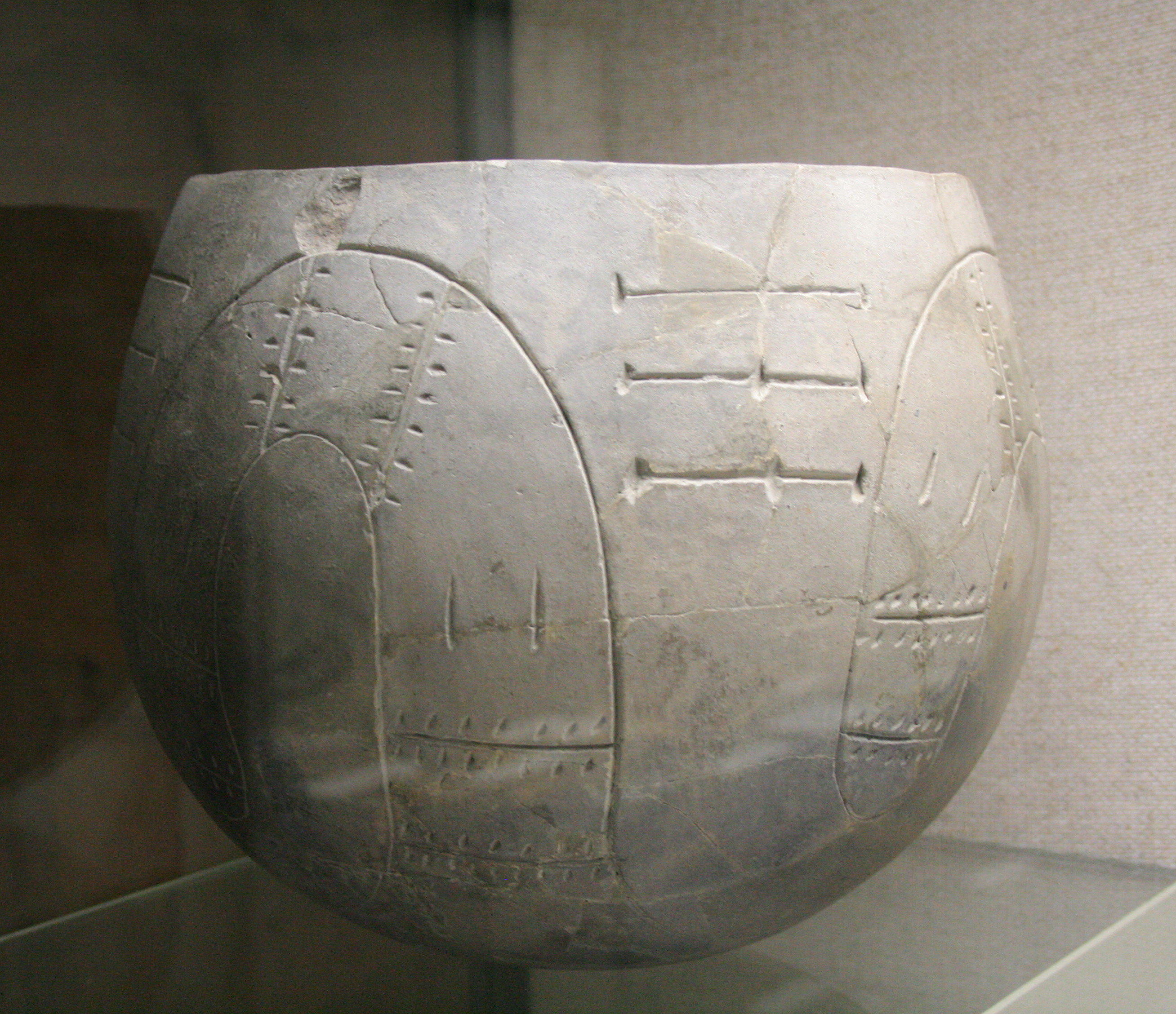 Linear Pottery Vessel, place of discovery: Rauschenberg-Bracht, Marburg-Biedenkopf County, Hesse, Germany, exhibited in the Universitätsmuseum für Kulturgeschichte, Marburg.